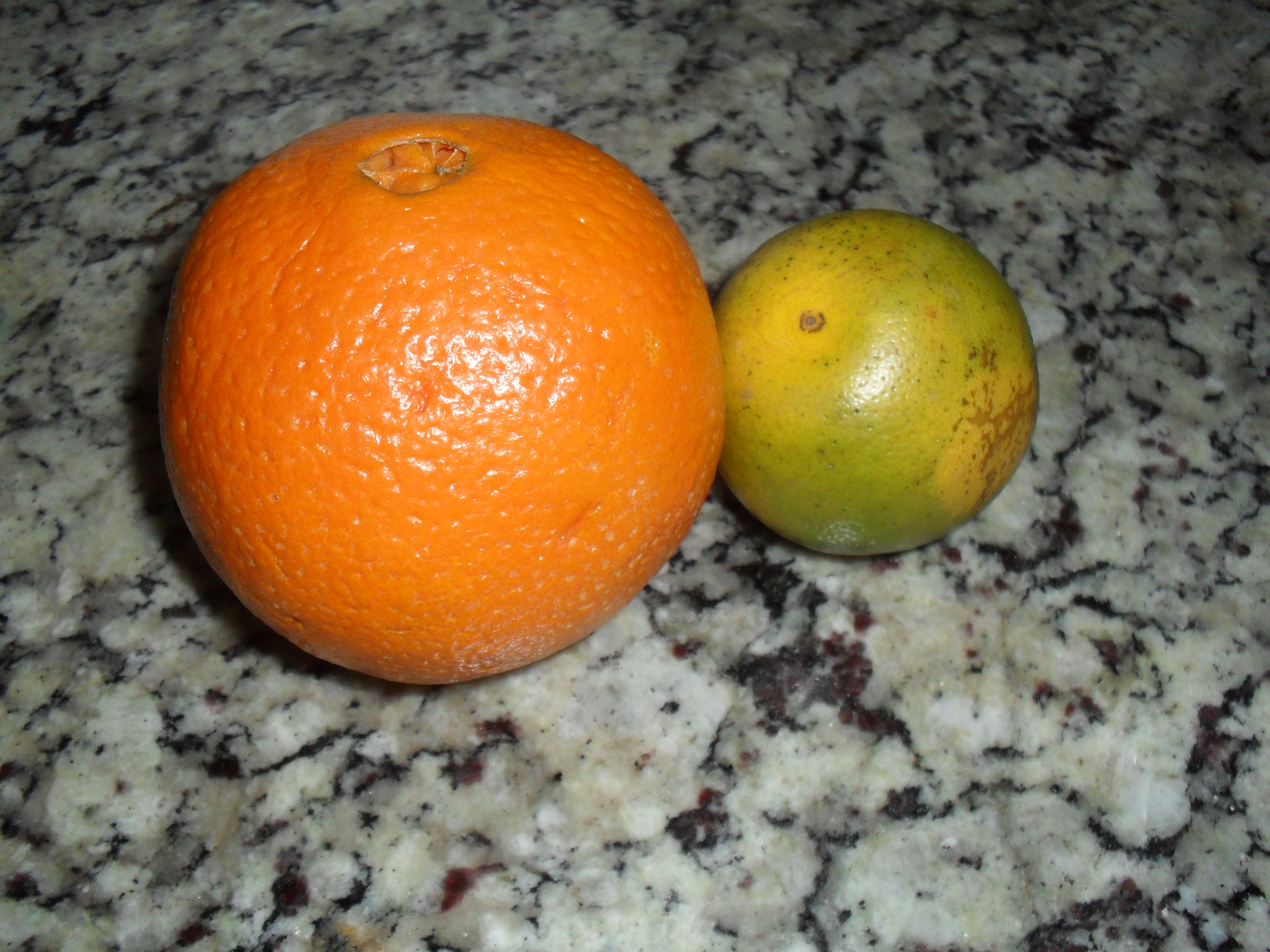 A navel orange close to a pera orange.